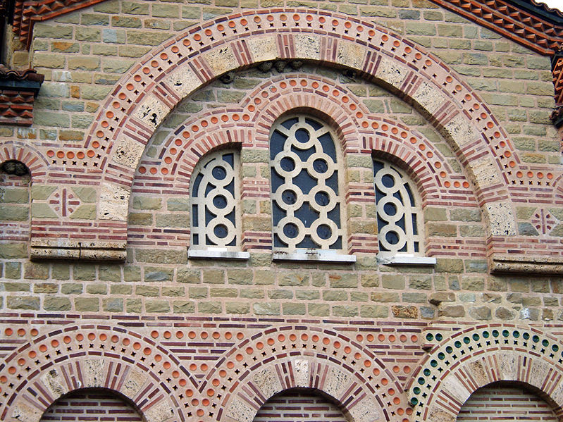 Church of St Demetrius of Thessaloniki, Veliko Tarnovo, made by User:Kandy from the BG Wikipedia